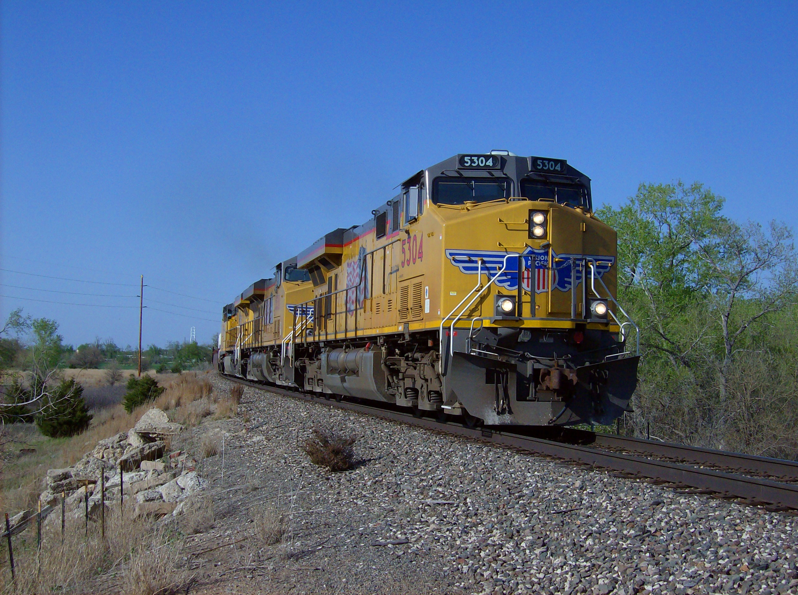 Three Union Pacific GEVOs about to cross the Arkansas River in Hutchinson, Kansas.